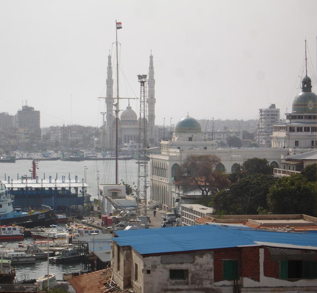 Port Fouad as seen from Port Said on the west bank of Suez canal.